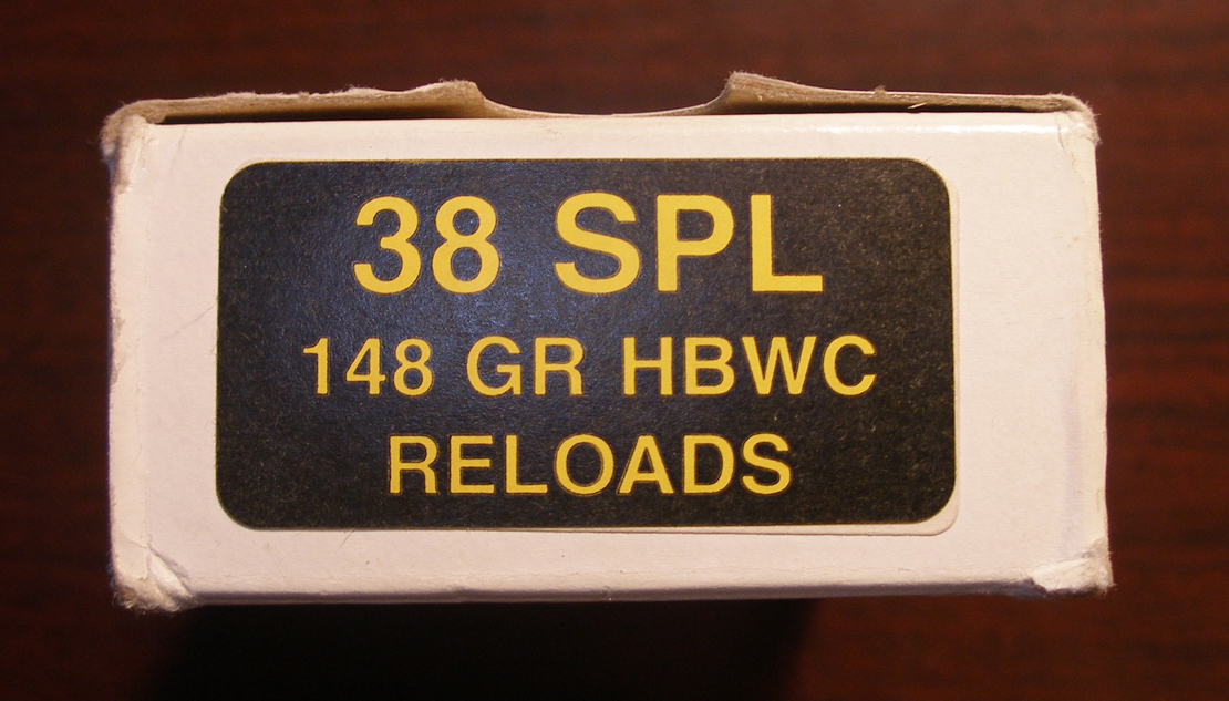 A box of .38 special cartridges showing that their bullets are weighed in grains. In this particular case 148-grain bullets were used.